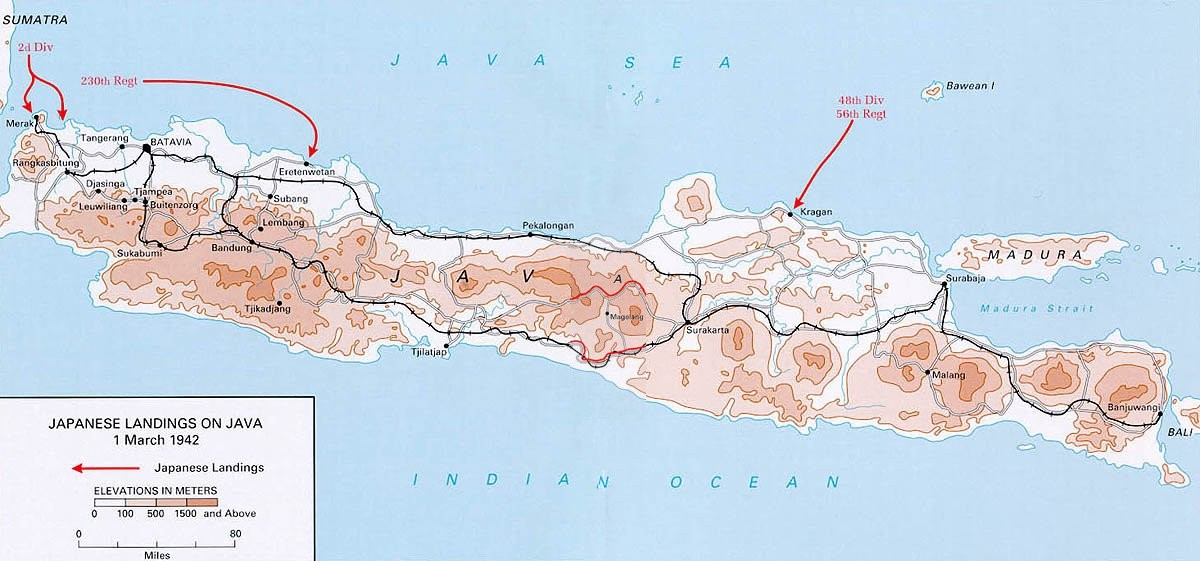 Japanese Landings on Java, 1 March 1942